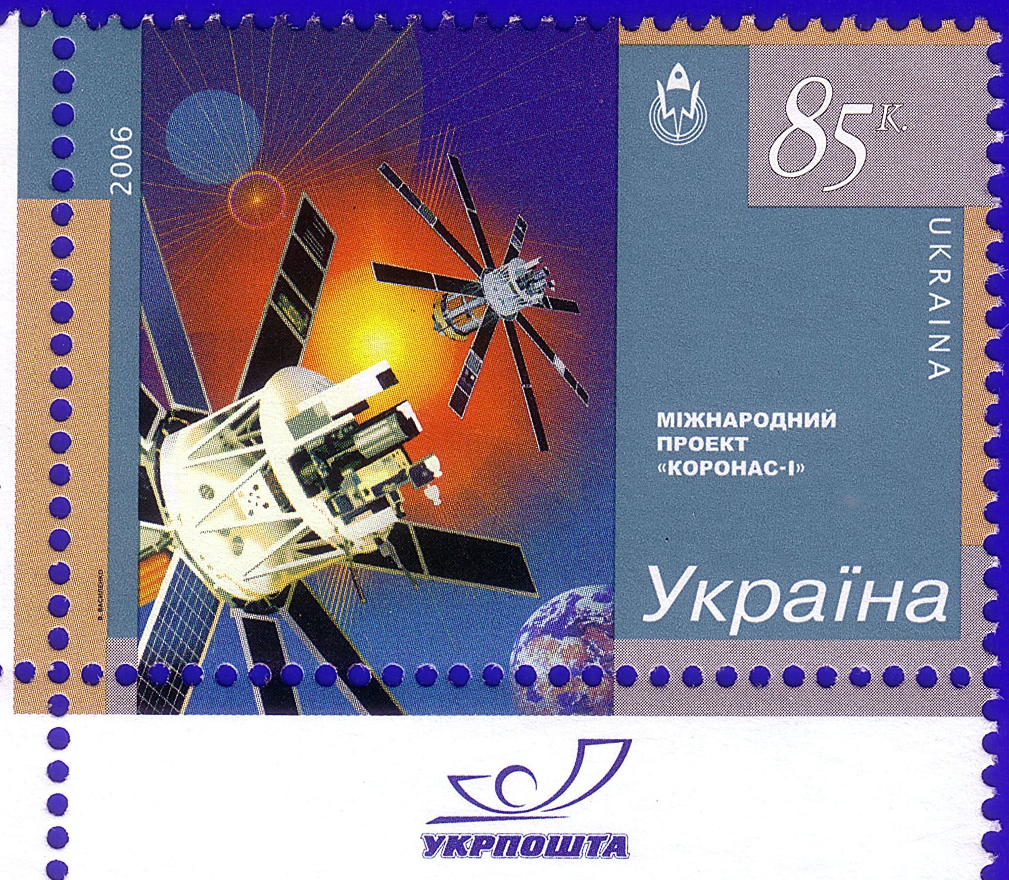 Stamp of Ukraine, 2006. Kosmos. Koronas-1.